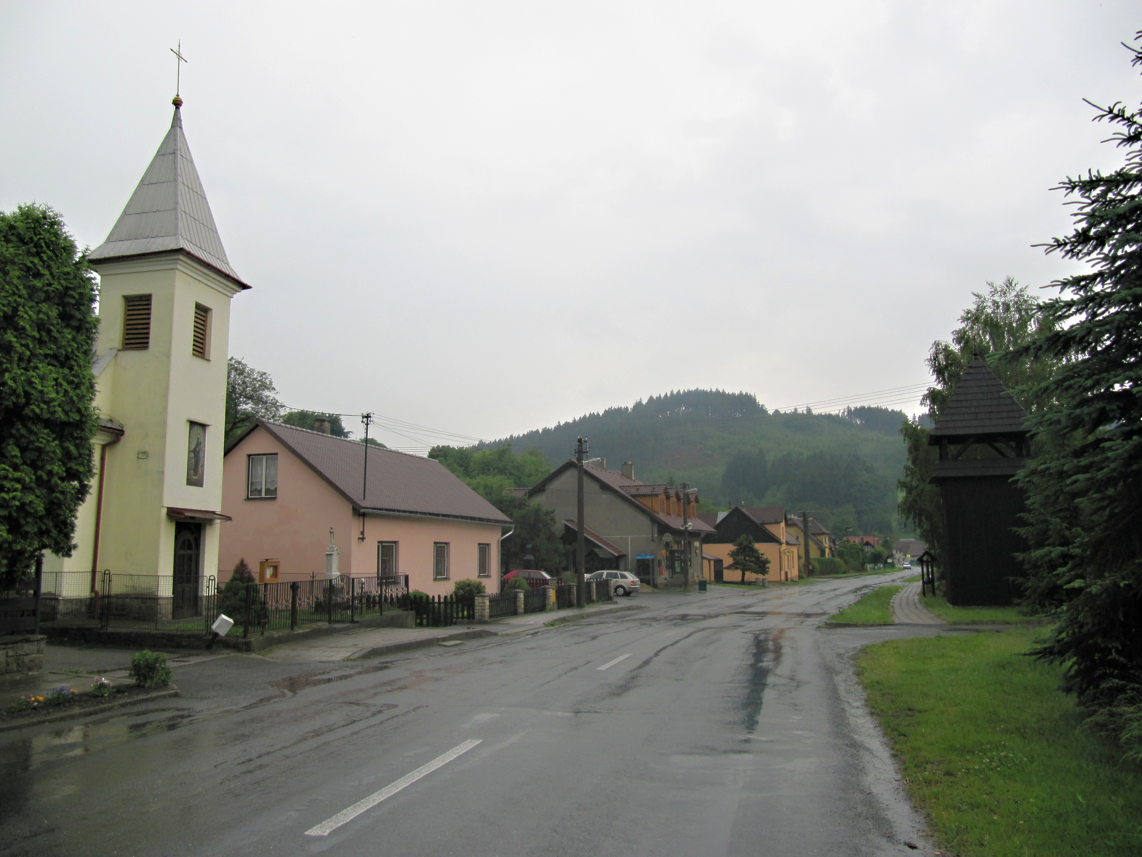 Držková in Zlín District, Czech Republic. Main street, way to Kašava, chapel on the left, belfry on the right. This photograph was taken within the scope of the third year of the 'Czech Municipalities Photographs' grant.